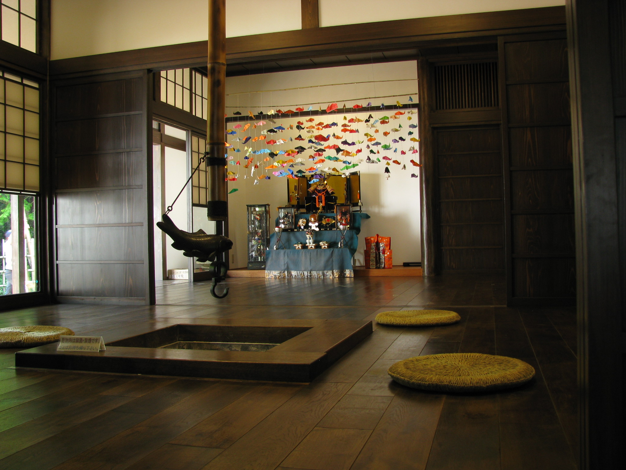 The Kabuto Kazari. Kodomono-hi on May 5. This located is Chigasaki-satoyama park in Chigasaki, Kanagawa, Japan.